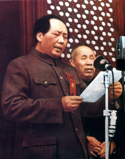 A retouched picture released by the Chinese official news agency showing the Chairman Mao Zedong proclaiming 01 October 1949 at the rostrum of Tiananmen Square in Beijing the establishment of the People's Republic of China. Person on right: Dong Bi-wu.